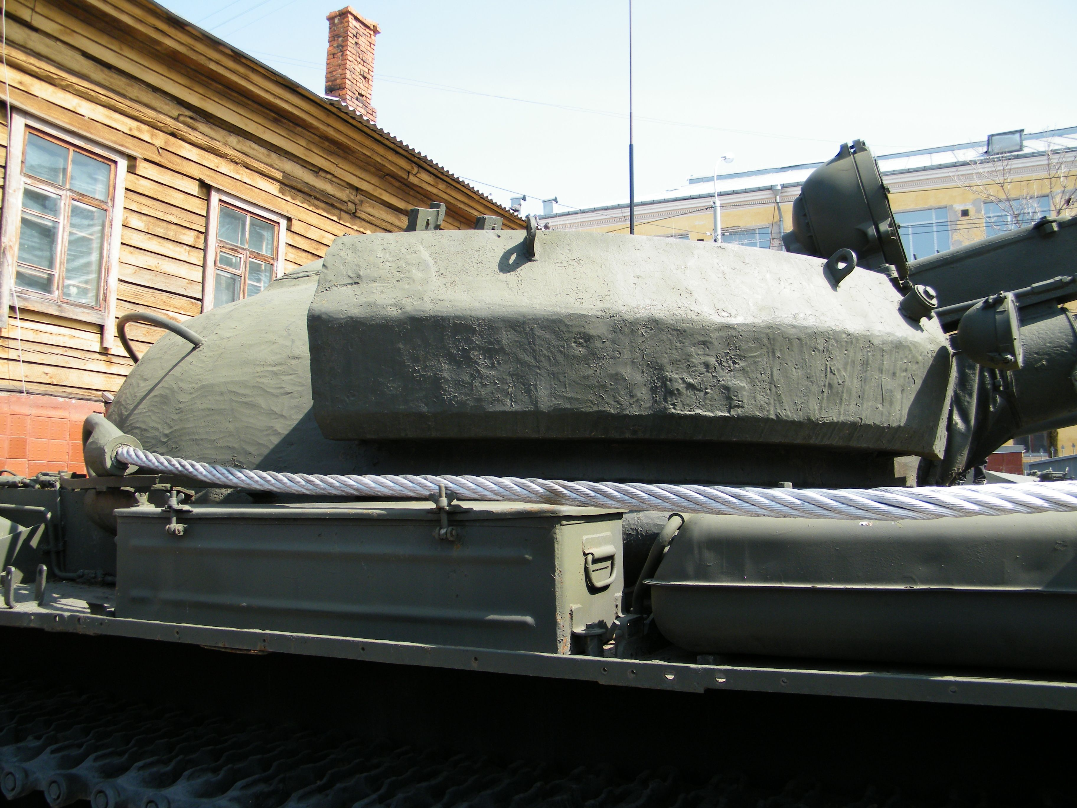 T-62M in the Khabarovsk Military Museum: turret close up